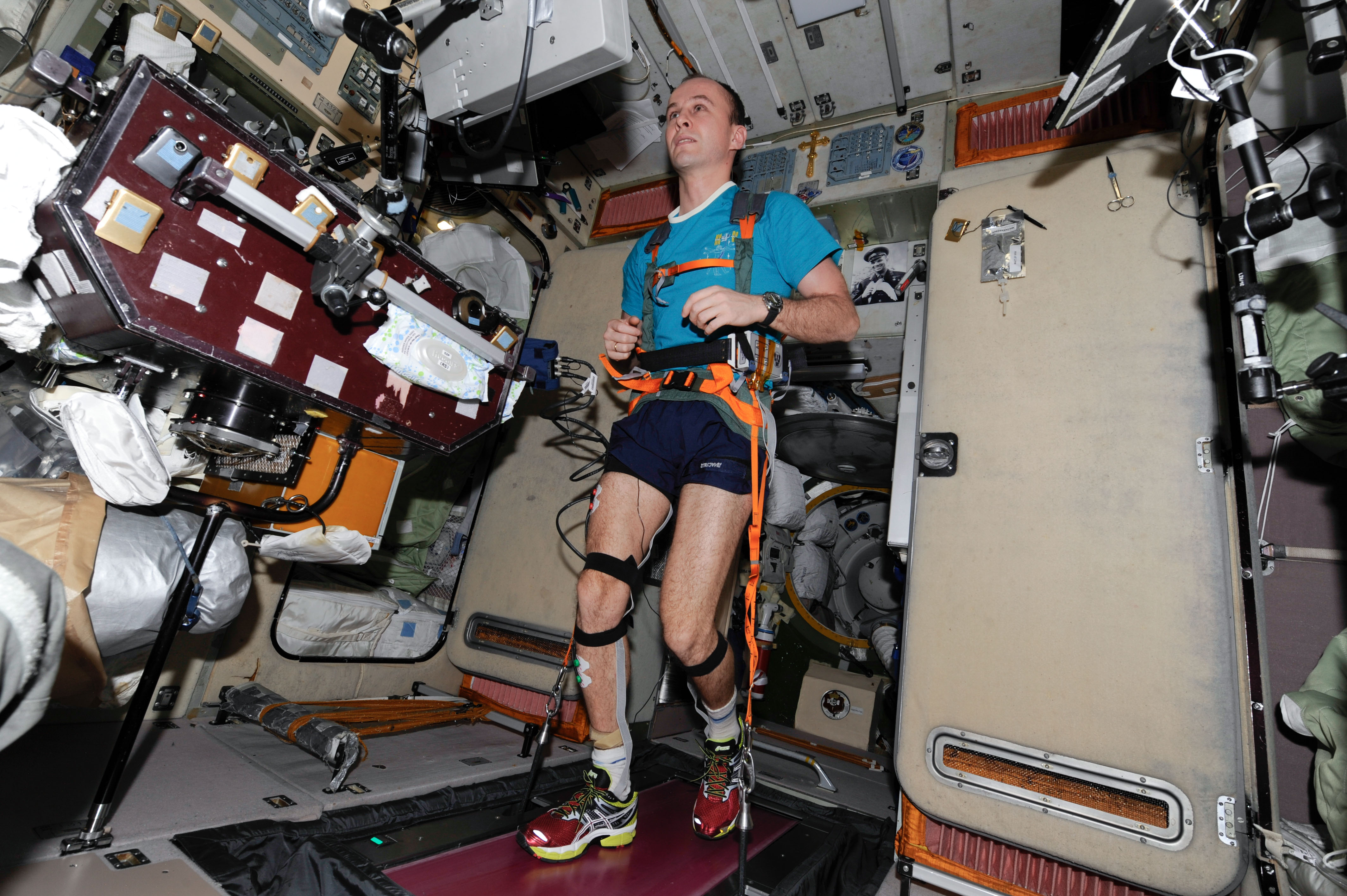 Russian cosmonaut Sergey Ryazanskiy, Expedition 38 flight engineer, equipped with a bungee harness, exercises on the Treadmill Vibration Isolation System (TVIS) in the Zvezda Service Module of the International Space Station.